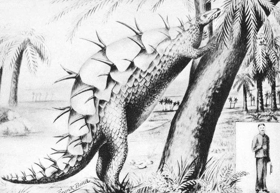 Early restoration of Stegosaurus with plates lying flat along the back. By Frank Bond, drawn under the direction of Professor W.C. Knight.